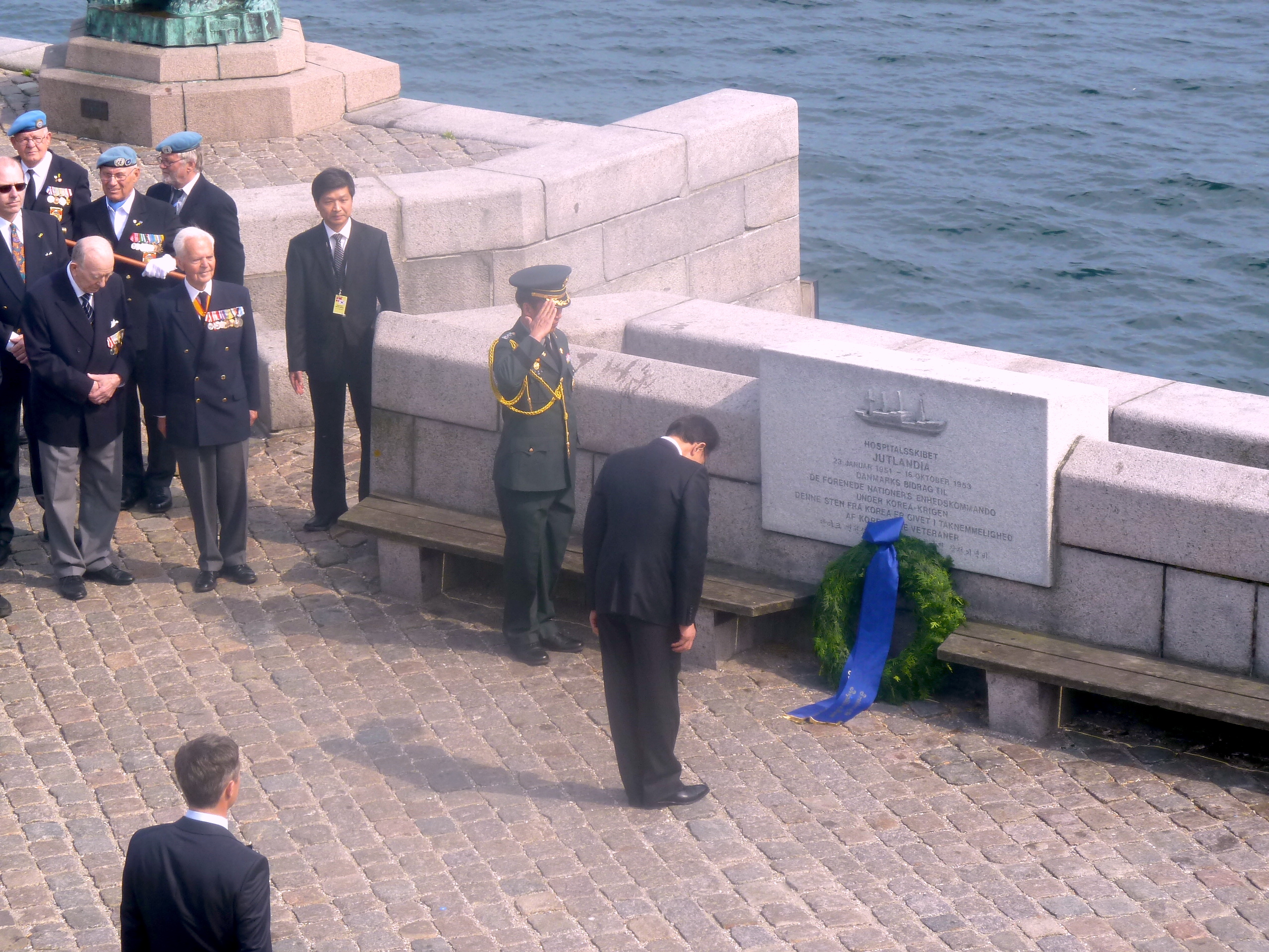 South Korean president Lee Myung-bak by lay of memorial wreath for the danish hospital ship MS Jutlandia at Langelinie, Copenhagen, Denmark.